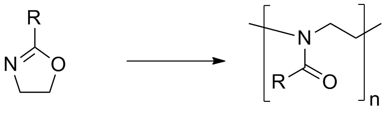 General scheme of the polymerisation of oxazolines to poly(2-oxazoline)s